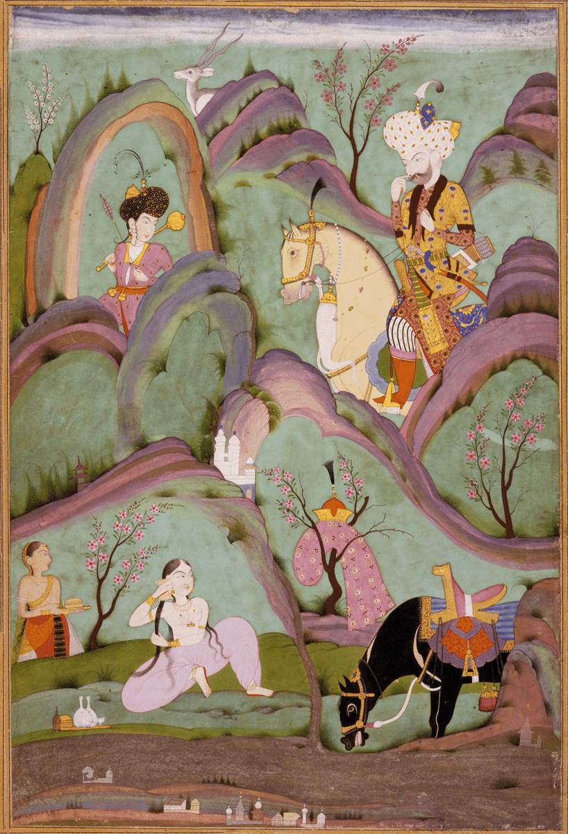 Khusraw Beholding Shirin Bathing India, Deccan, Hyderabad; c. 1720-1740 [ Click for larger version ]